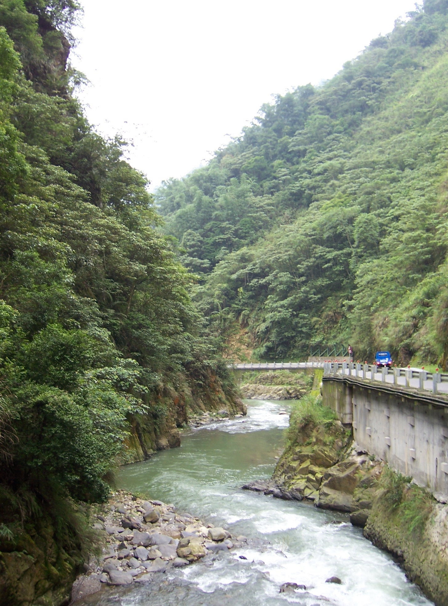 Nangang River also known as Nanhong River. Showing the river from at the valley of Nioudong, it located in Puli Township, Nantou County, Taiwan.